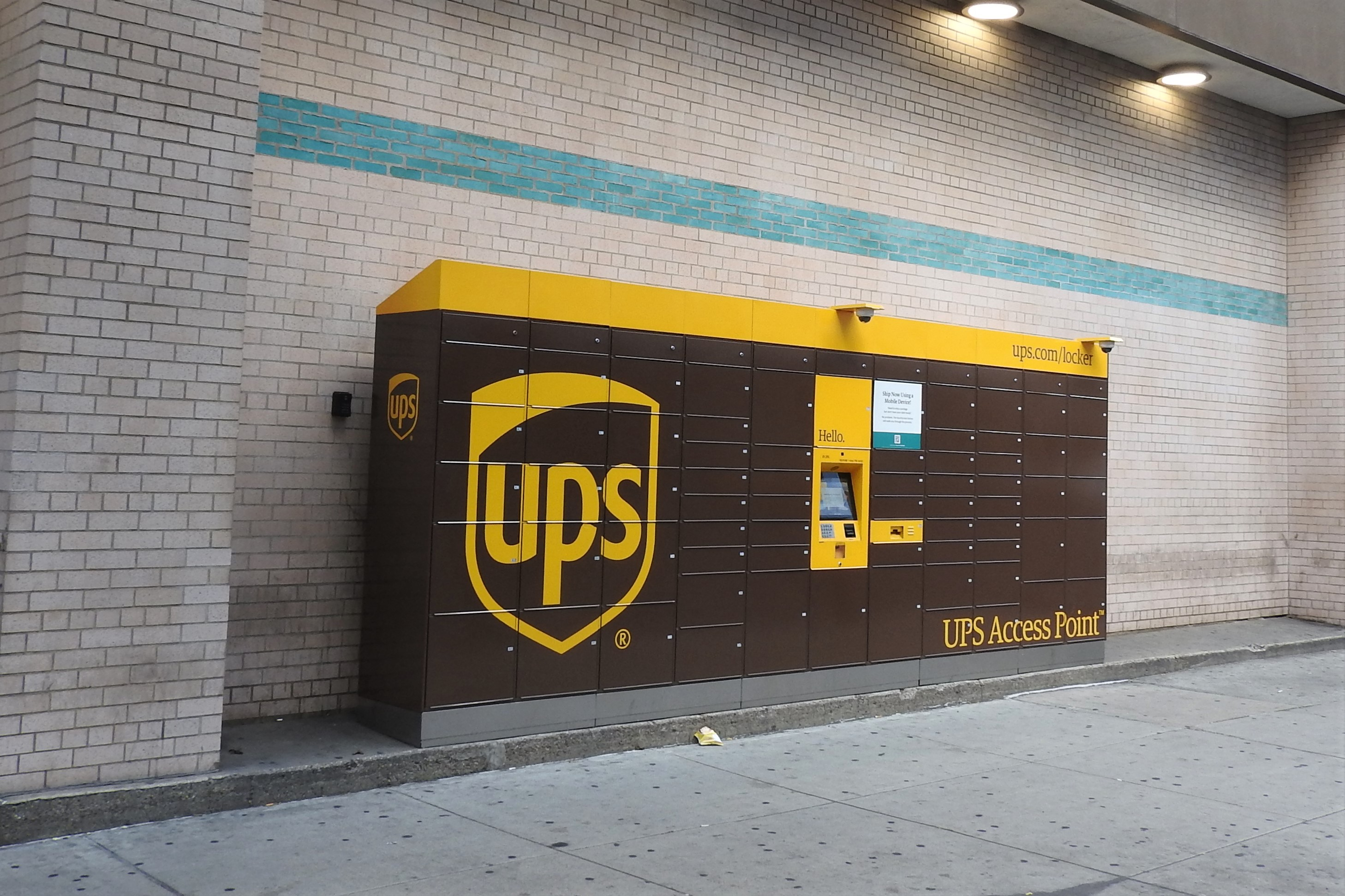 Looking north from curb at sidewalk lockers.